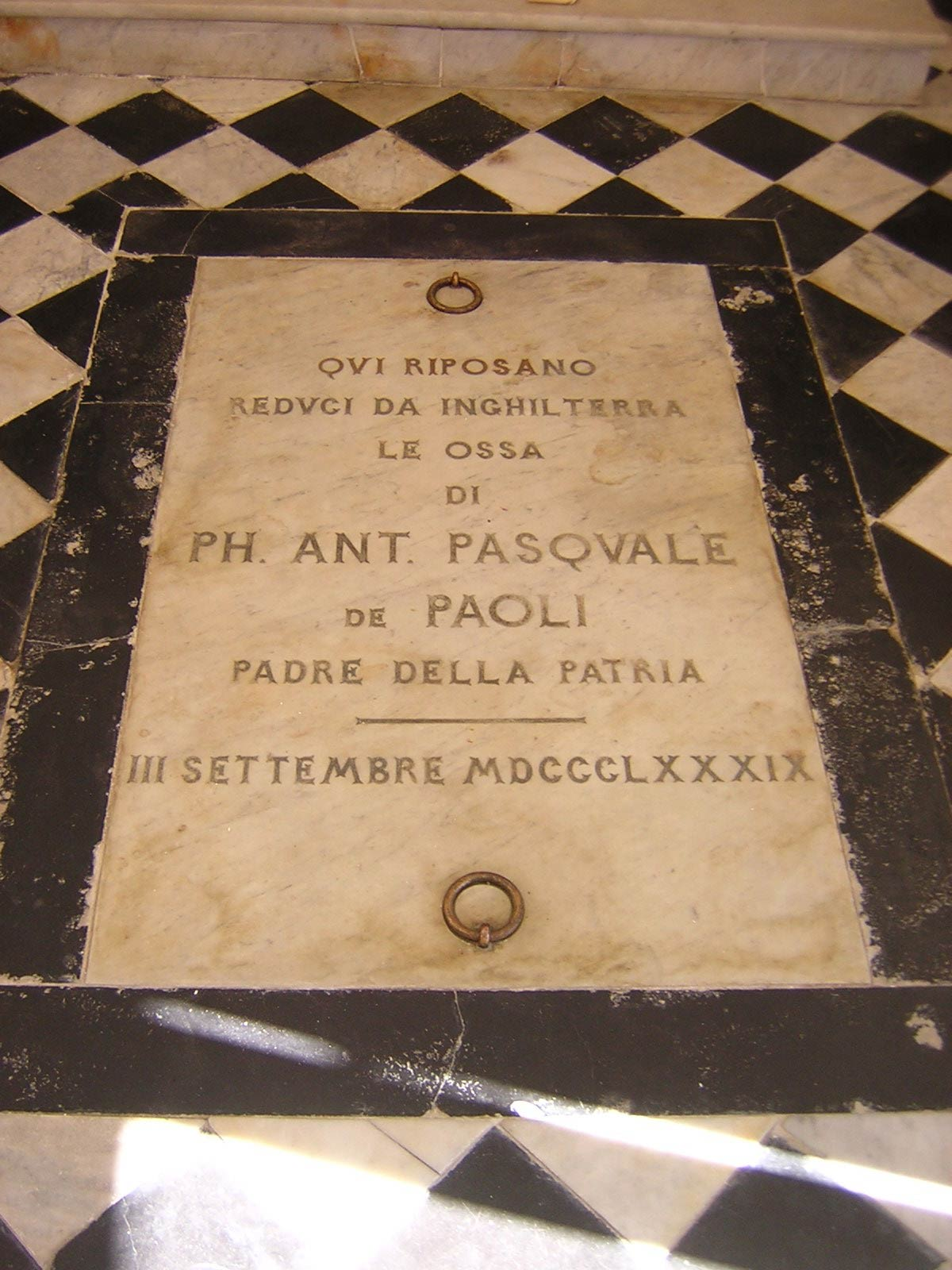 Pasquale Paoli (Morosaglia, 1725 - London, 1807) tombstone in the chapel created within his birthplace house. His body was returned at home in 1889. The tombstone is inscribed in Italian, official language of Corsica till the full imposition of the French (1859).